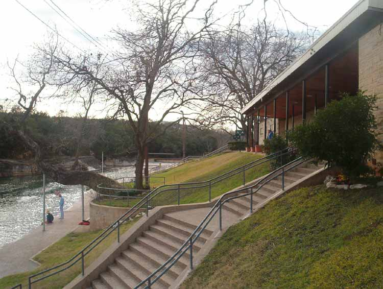 Barton Springs (photo by User:Hephaestos GFDL)